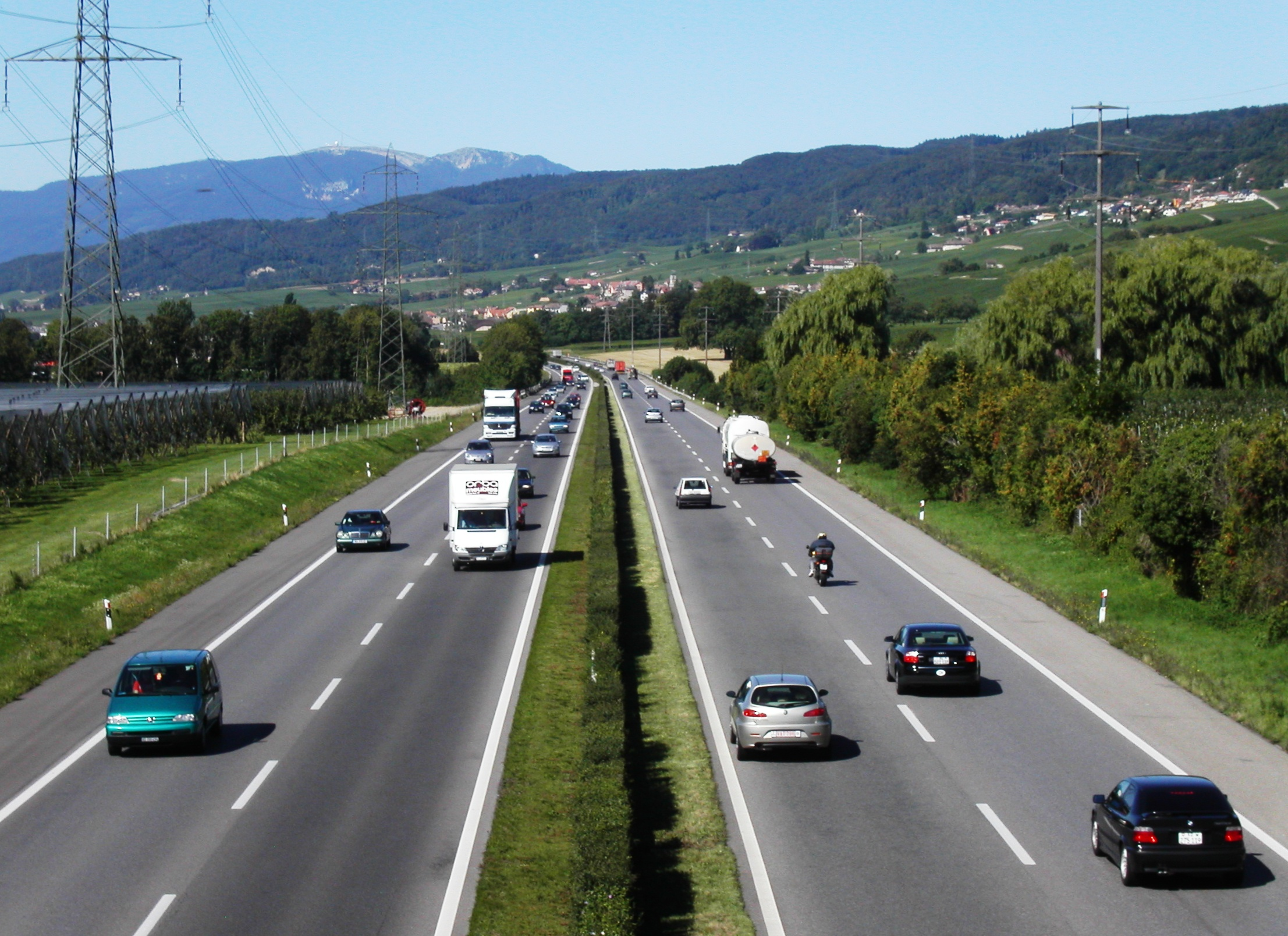 Swiss highway A1 in Féchy, Vaud, Switzerland.